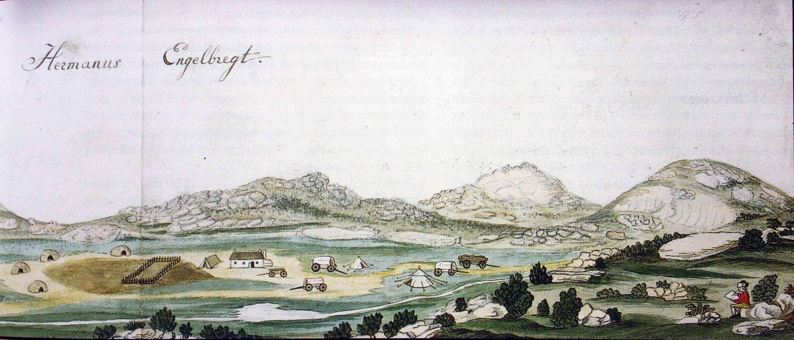 "Ellenboogfontein (farm of Hermanus Engelbregt) near present-day Kamieskroon - a haven to Gordon and many other travellers" Page 75 of 'Robert Jacob Gordon 1743-1795' - Patrick Cullinan